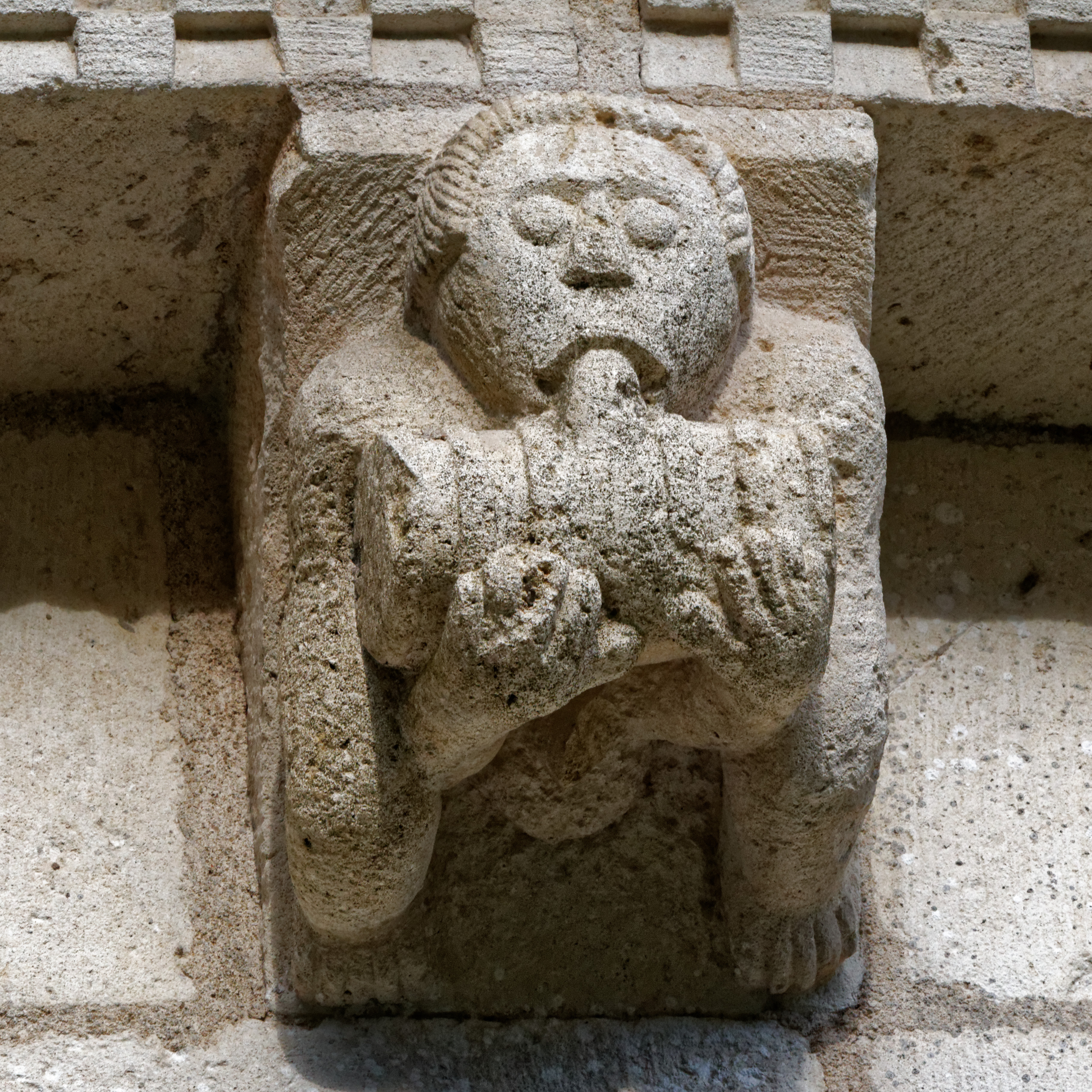 As for the punishment of capital sins, the torment of the barrel always full is the punishment of unrepentant drinkers, but the players of doilio, and more generally musicians are often associated with bacchanals ....